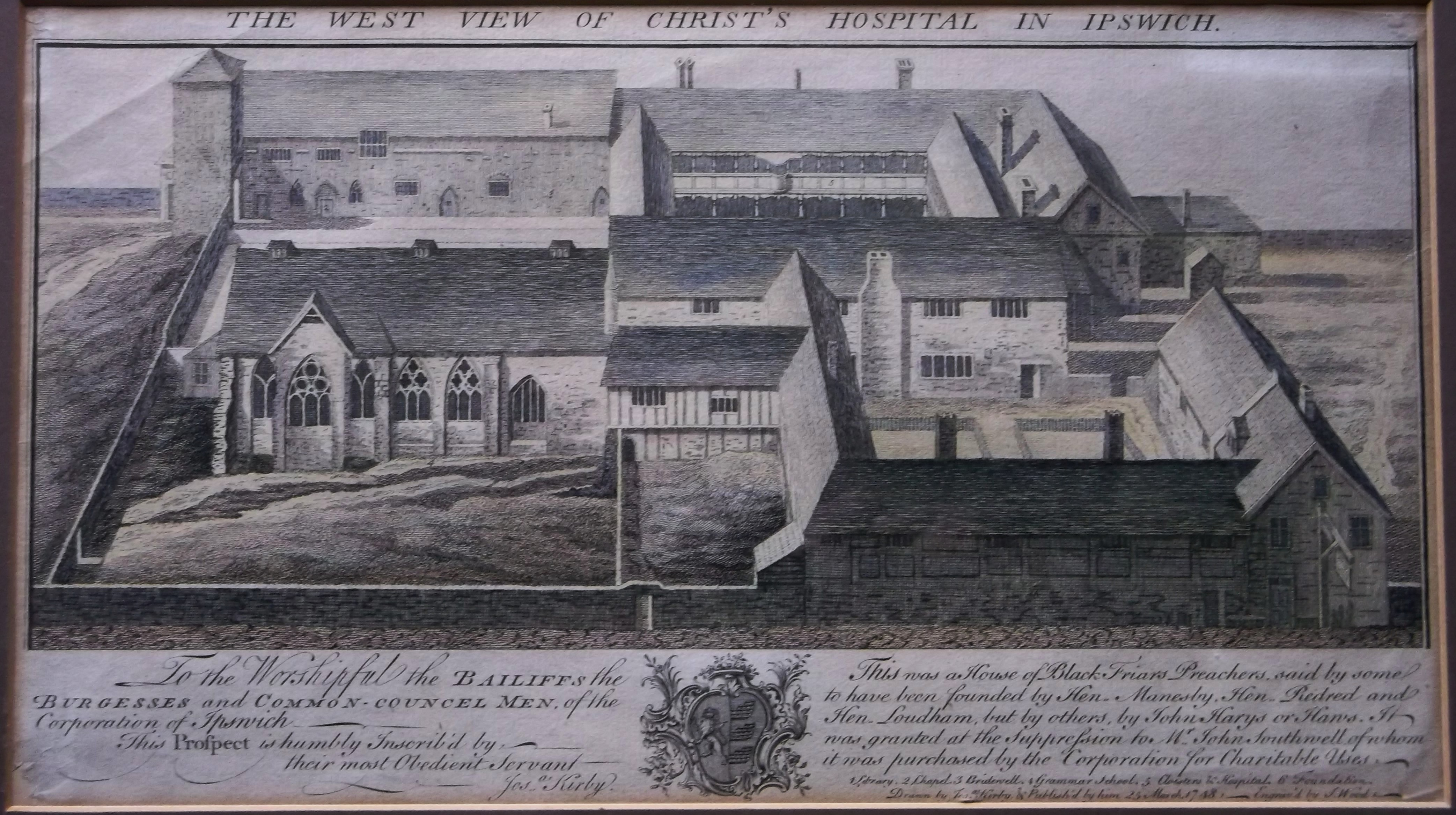 My photograph of an original 1748 engraving of the lost domestic buildings of Ipswich Blackfriars, by J. Wood, drawn and published by Joshua Kirby (artist) in his 12 Plates of Suffolk Antiquities, the 1748 original from my own private collection.